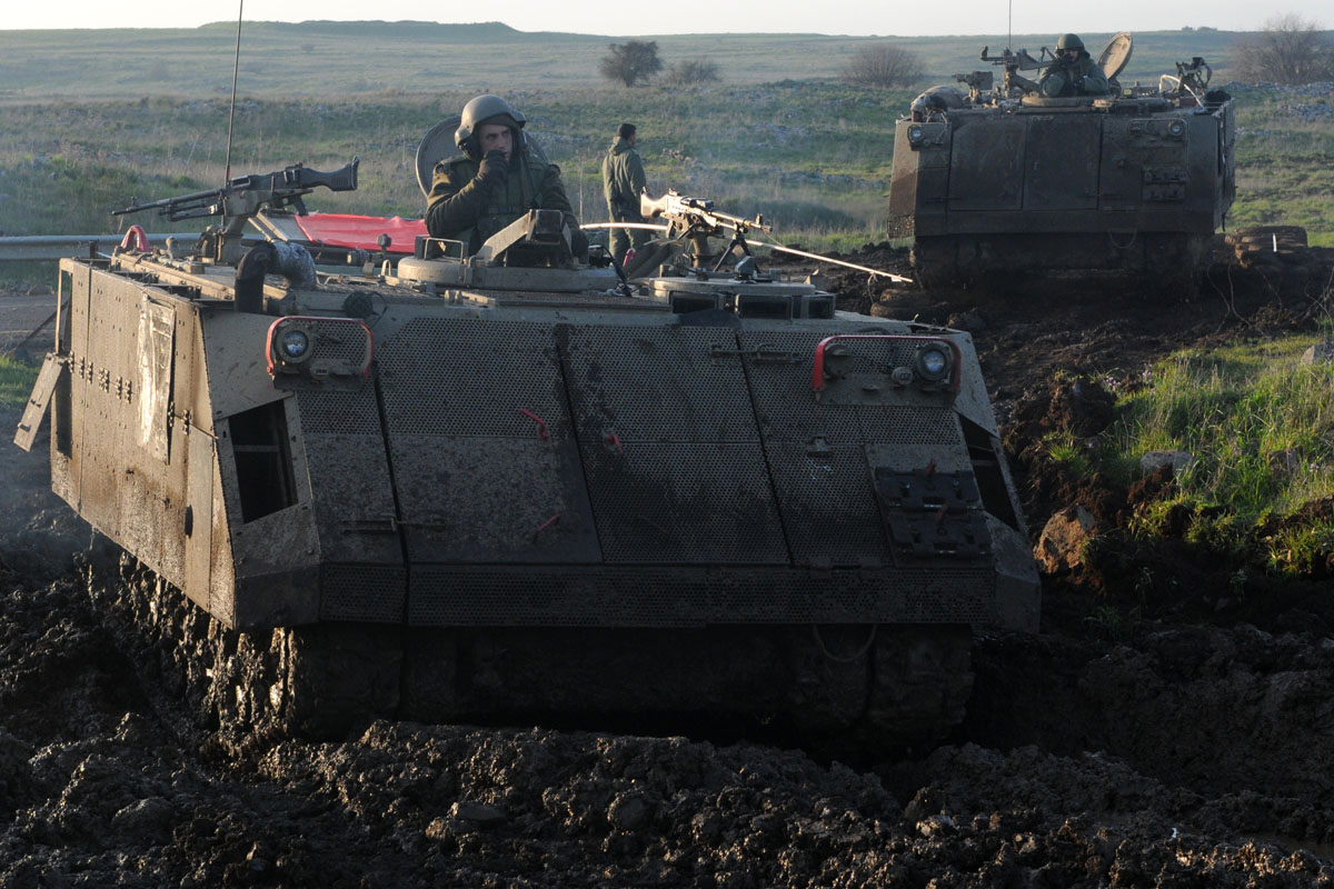 February 28, 2012 Last month, the IDF Artillery Corps' cadets conducted a competence day, testing their abilities by competing one another. On that day, the soldiers competed in many ways- inserting the shells into the canons the fatest, aiming the canon the fastest, and last- firing the shells as quickly and accurately as possible. The Israel Defense Forces Facebook • blog • Twitter